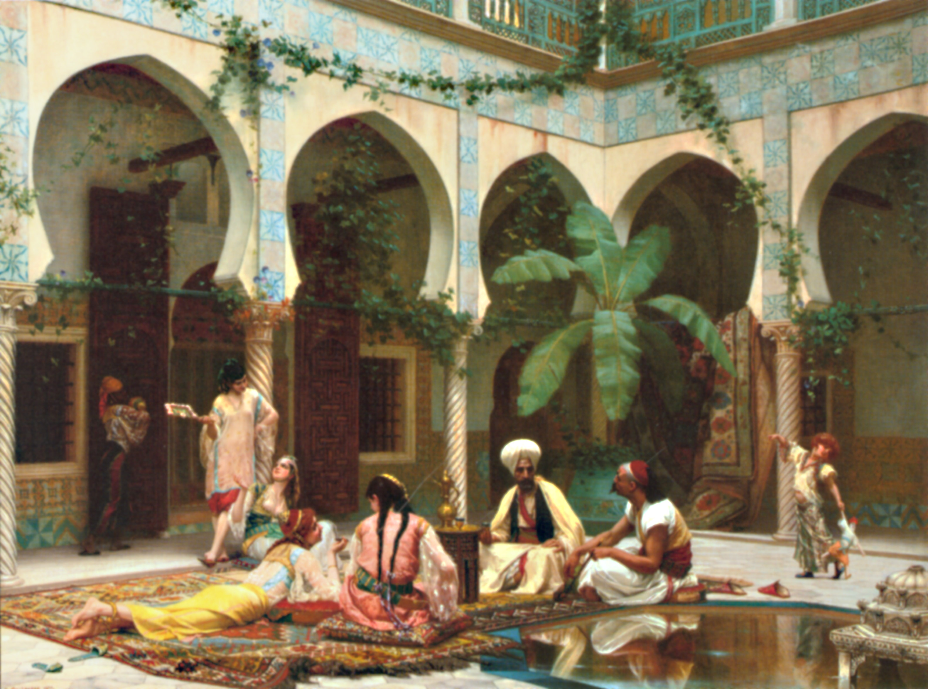 Le harem du palais